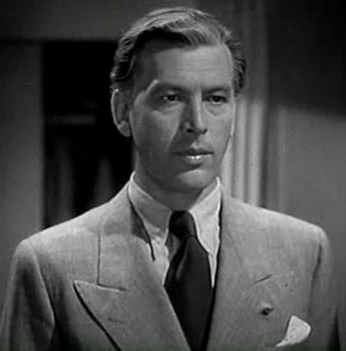 Philip Dorn in Reunion in France - trailer (cropped screenshot)